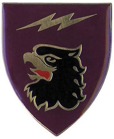 44 Signals Regiment Shoulder Flash